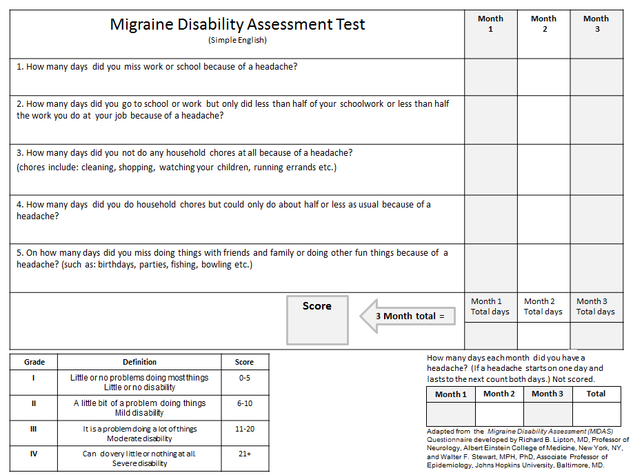 A Simple English version of the Migraine disabilty assessment questionnaire